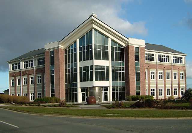 Manx Telecom Headquarters in Spring Valley, Isle of Man